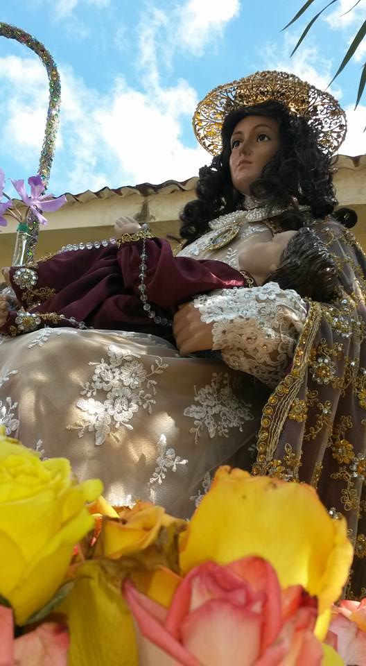 Madre del Divino Pastor patrona de la Diocesis